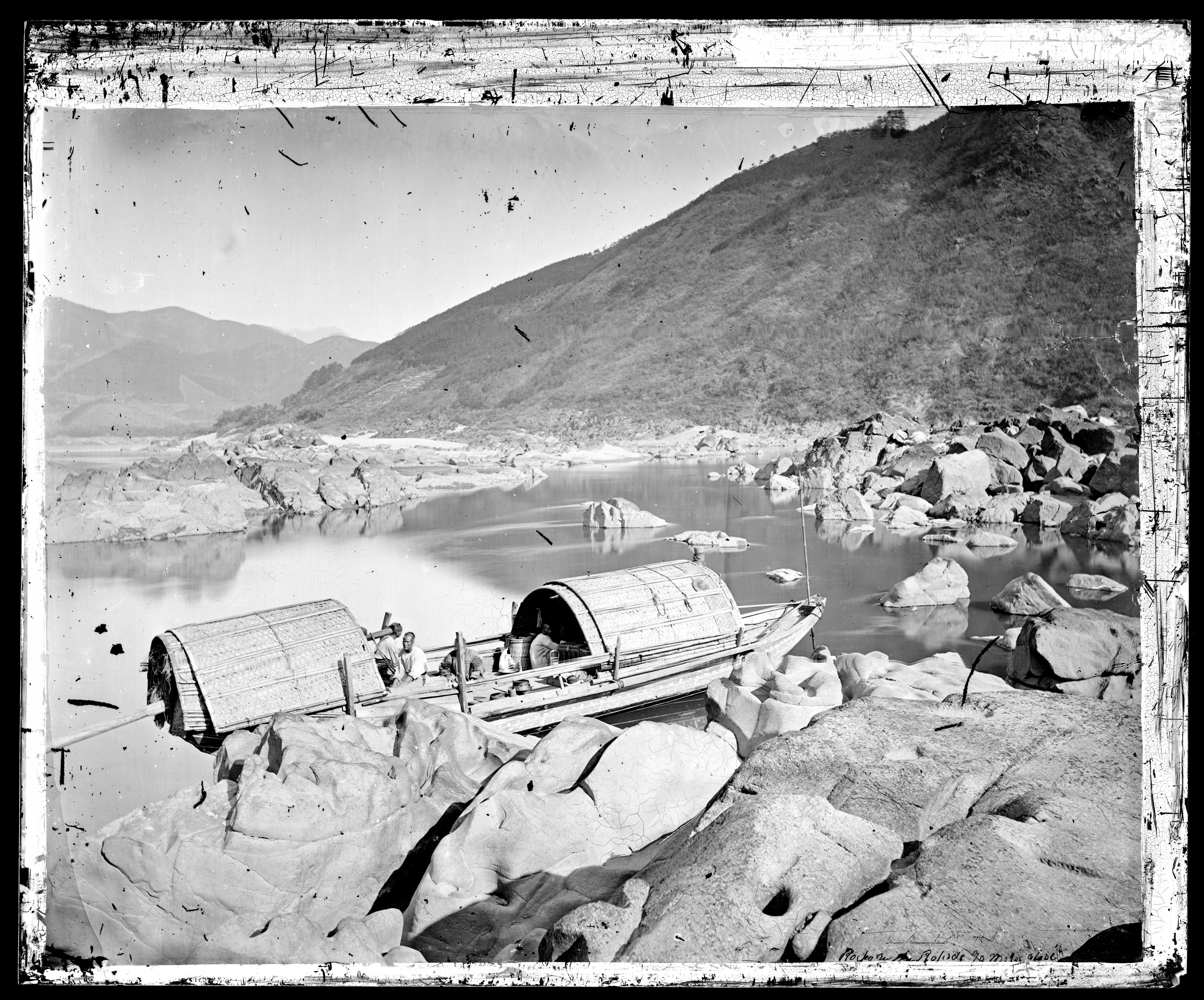 River Min, Fukien province, China. Photograph by John Thomson, 1870/1871. Iconographic Collections Keywords: J. Thomson